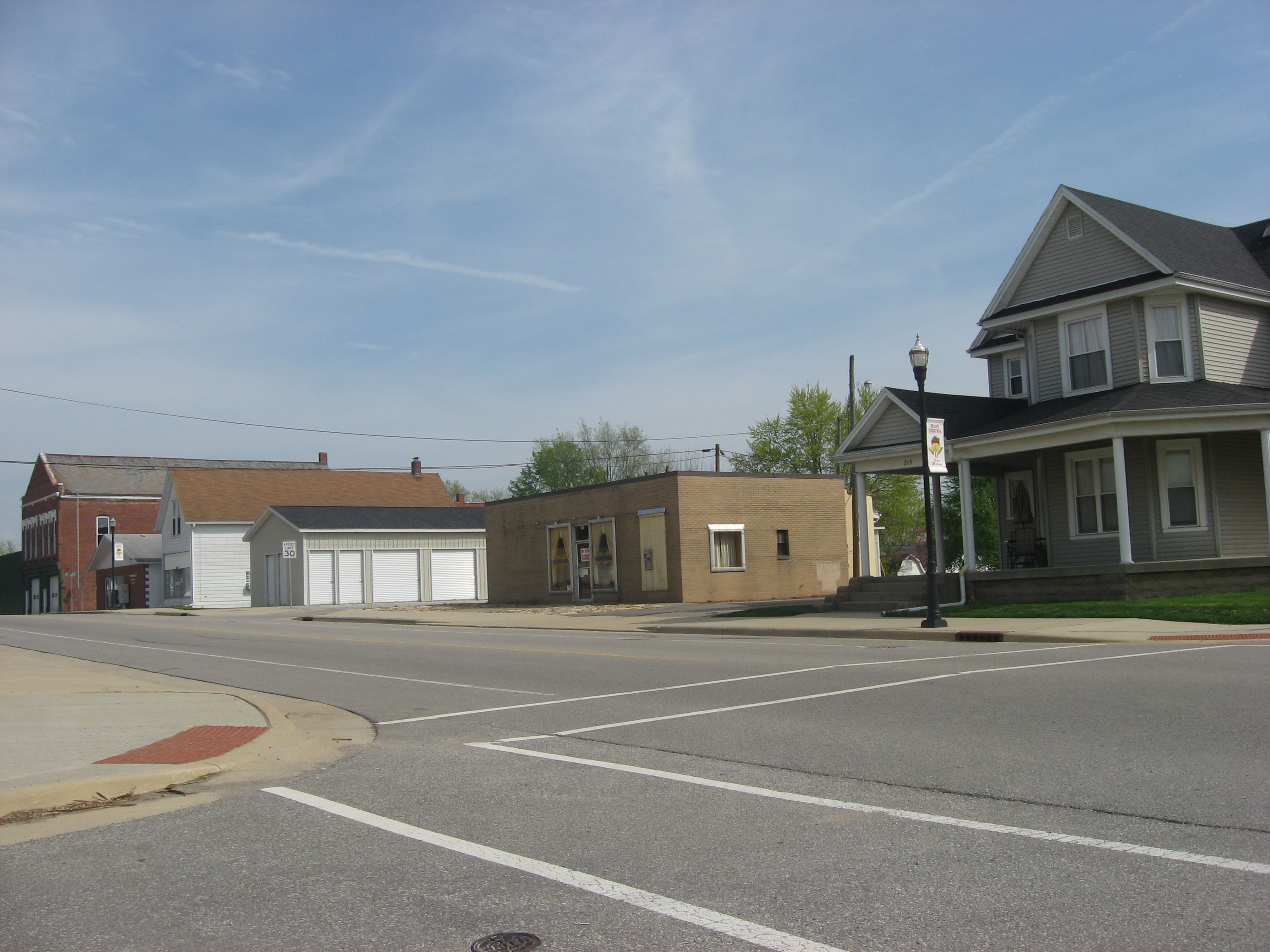 Buildings on the southern sides of the 200 (right) and 100 (left) blocks of W. Main Street (State Road 244) in downtown Milroy, Indiana, United States. Located at 211 W. Main, the house on the right edge of the photo was built in 1900.